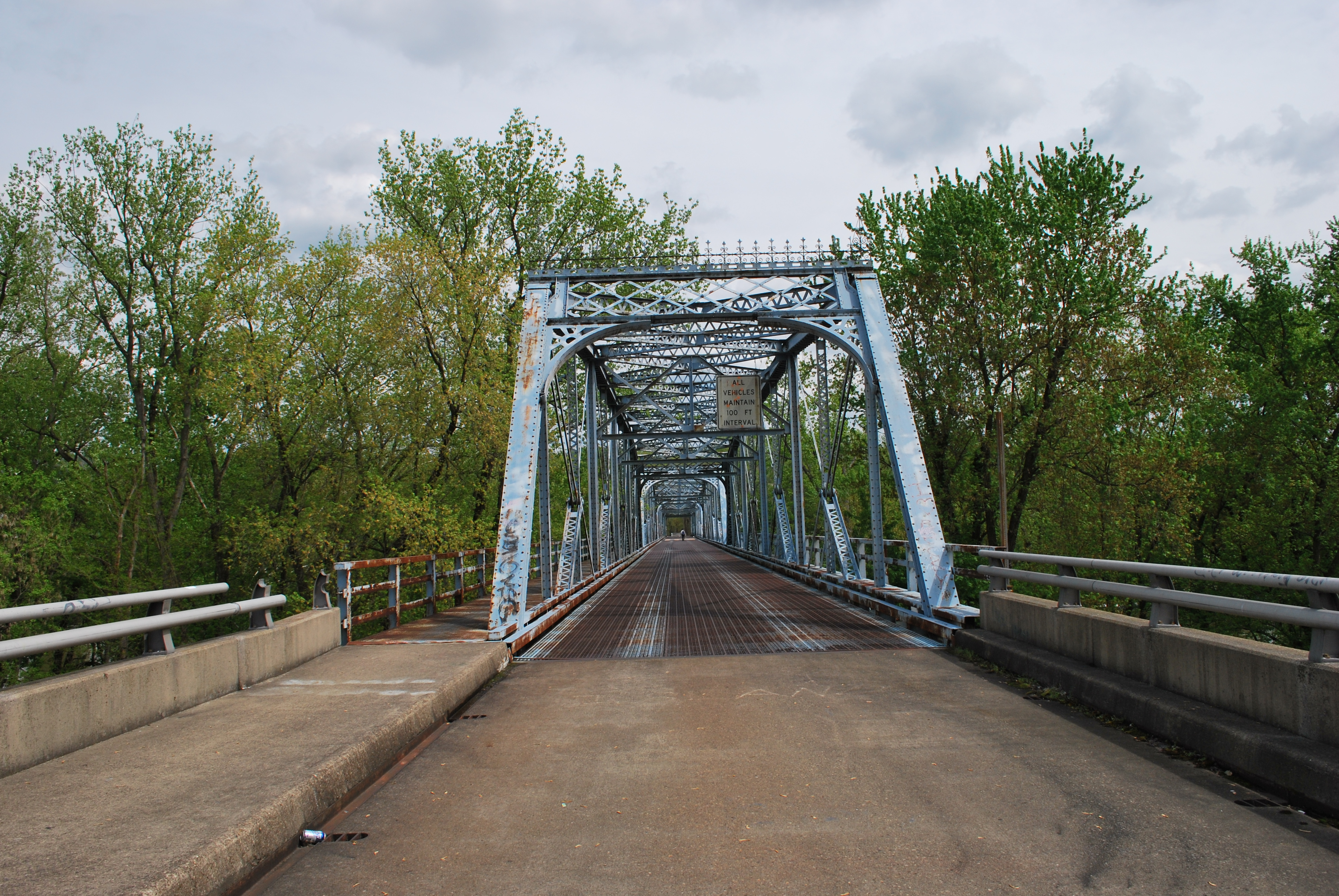 Aetnaville Bridge over the Ohio River back channel at Wheeling, West Virginia.